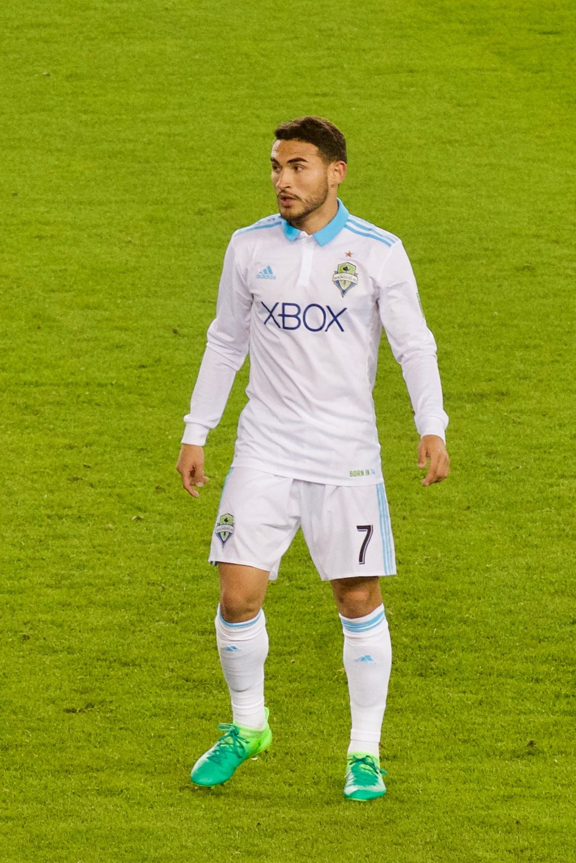 Cristian Roldan playing for Seattle Sounders at Avaya Stadium on 8 April 2017.